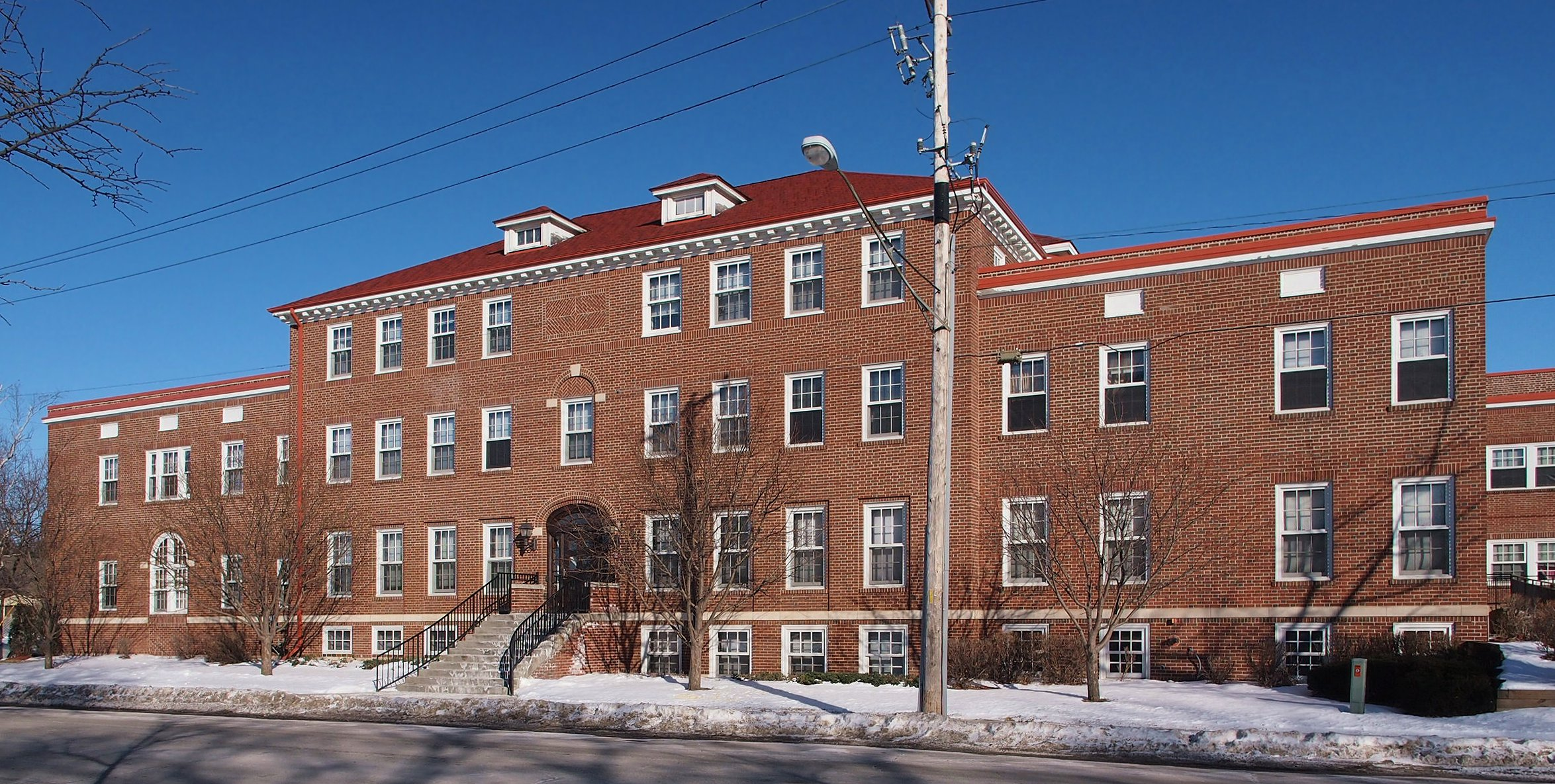 North East Neighborhood House, 1929 2nd St NE, Minneapolis, Minnesota, USA. Viewed from the southwest.